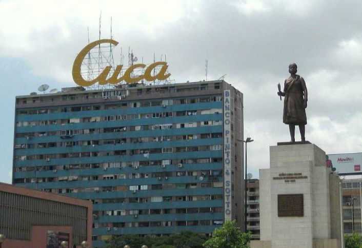 Cuca Building and the statue of Queen Mwane Njinga Mbande, Luanda, Angola.